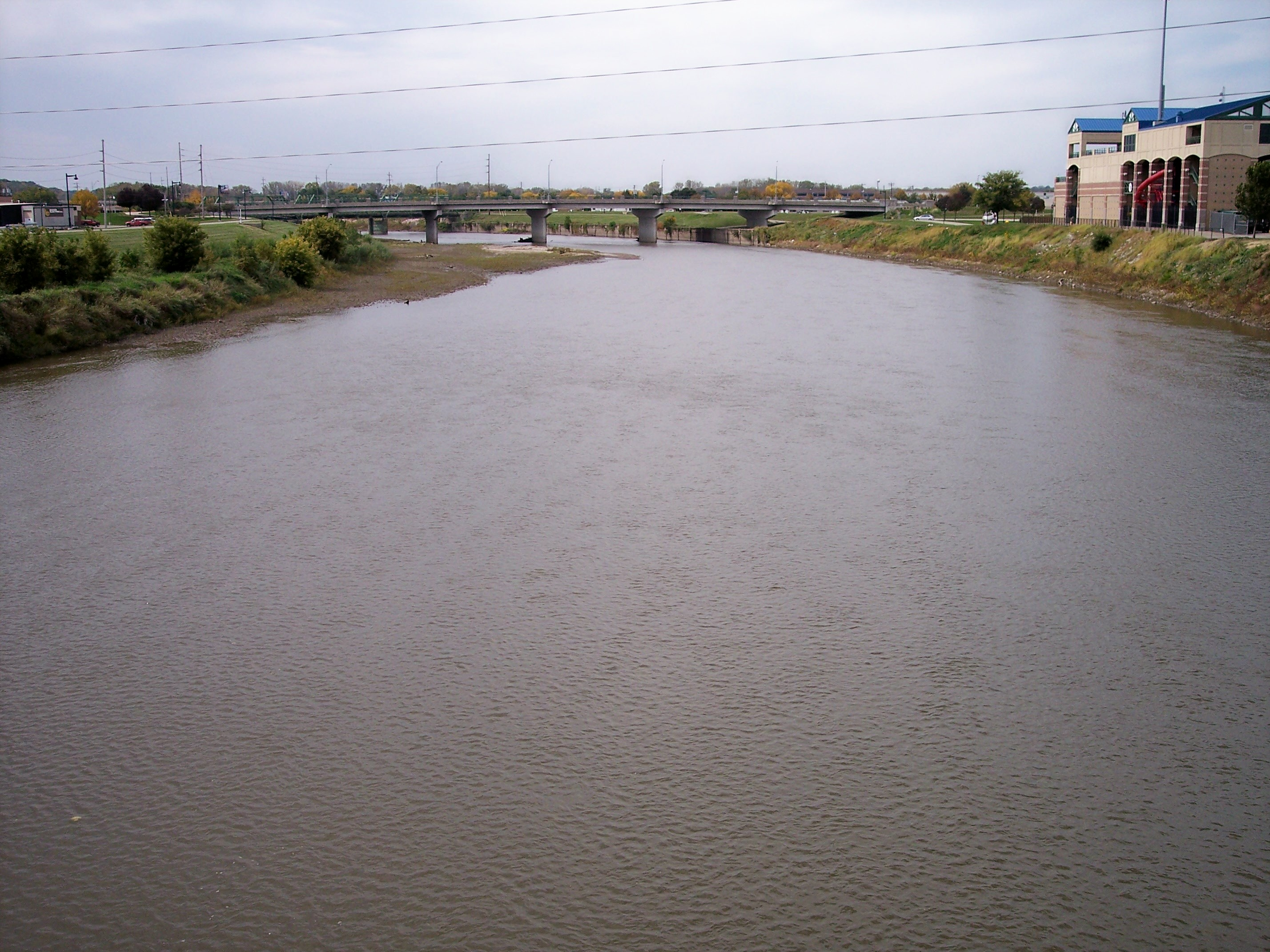 The Raccoon River in Des Moines, Iowa, as viewed upstream from a pedestrian bridge at its mouth at the Des Moines River. Principal Park is at right.